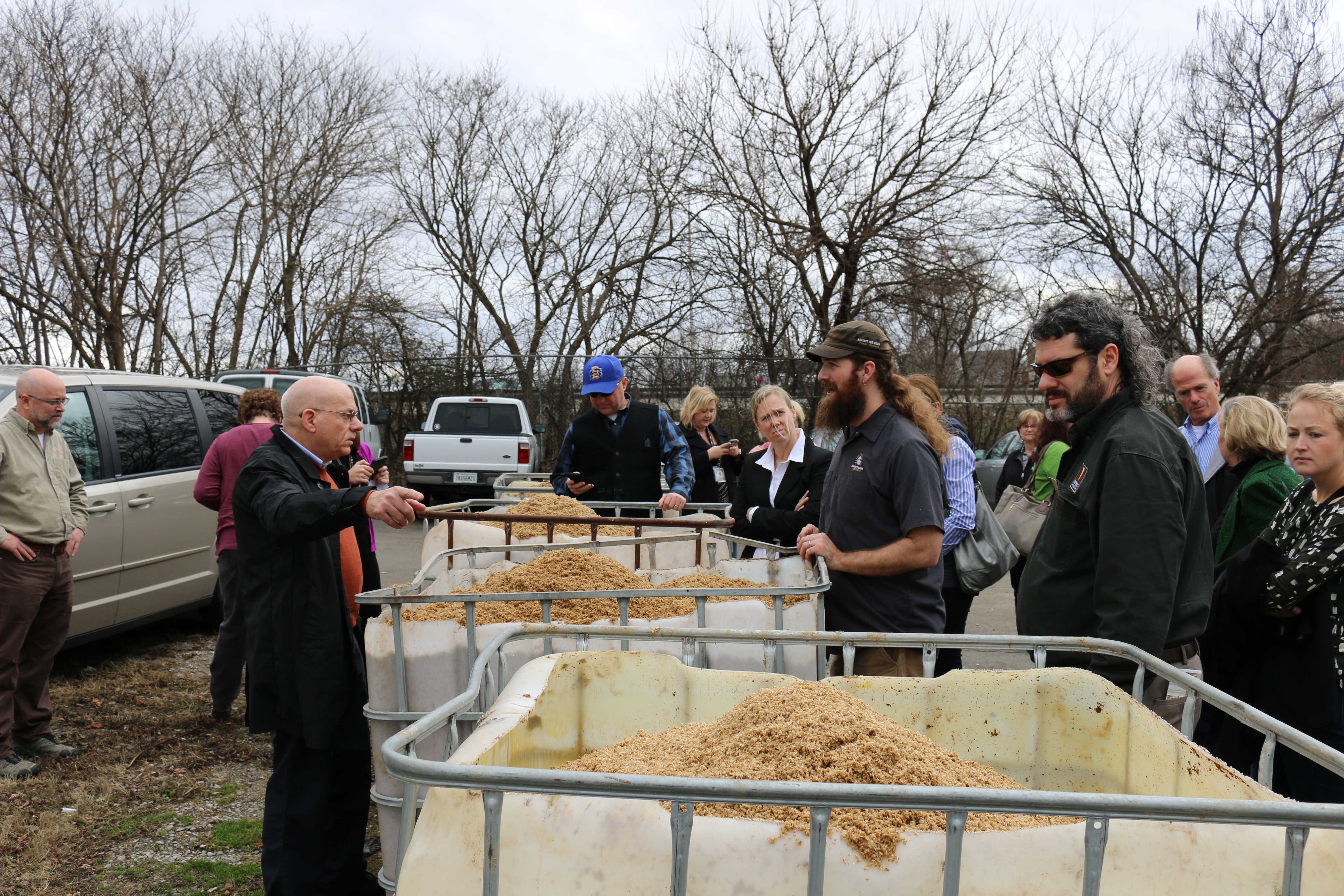 Adam Watson (center), managing member and brewer at Against the Grain Brewery in Louisville, shows the visitors the containers of wet spent grain waiting for pickup outside the brewery. A team of FDA, Kentucky and Distilled Spirits Council representatives, led by Dr Stephen Ostroff, FDA’s deputy commissioner for foods and veterinary medicine, toured distilleries and a craft brewery over Jan. 11 and 12, 2017. (Dr Ostroff became acting FDA commissioner on Jan. 20, 2017.) The goal was to facilitate industry understanding of applicable FDA rules under the Food Safety Modernization Act, including those related to spent grains used in animal foods, and to increase FDA’s understanding of how distilleries and breweries operate. To learn more, read the FDA Voice blog. This photo is free of all copyright restrictions and available for use and redistribution without permission. Credit to the U.S. Food and Drug Administration is appreciated but not required. For more privacy and use information visit